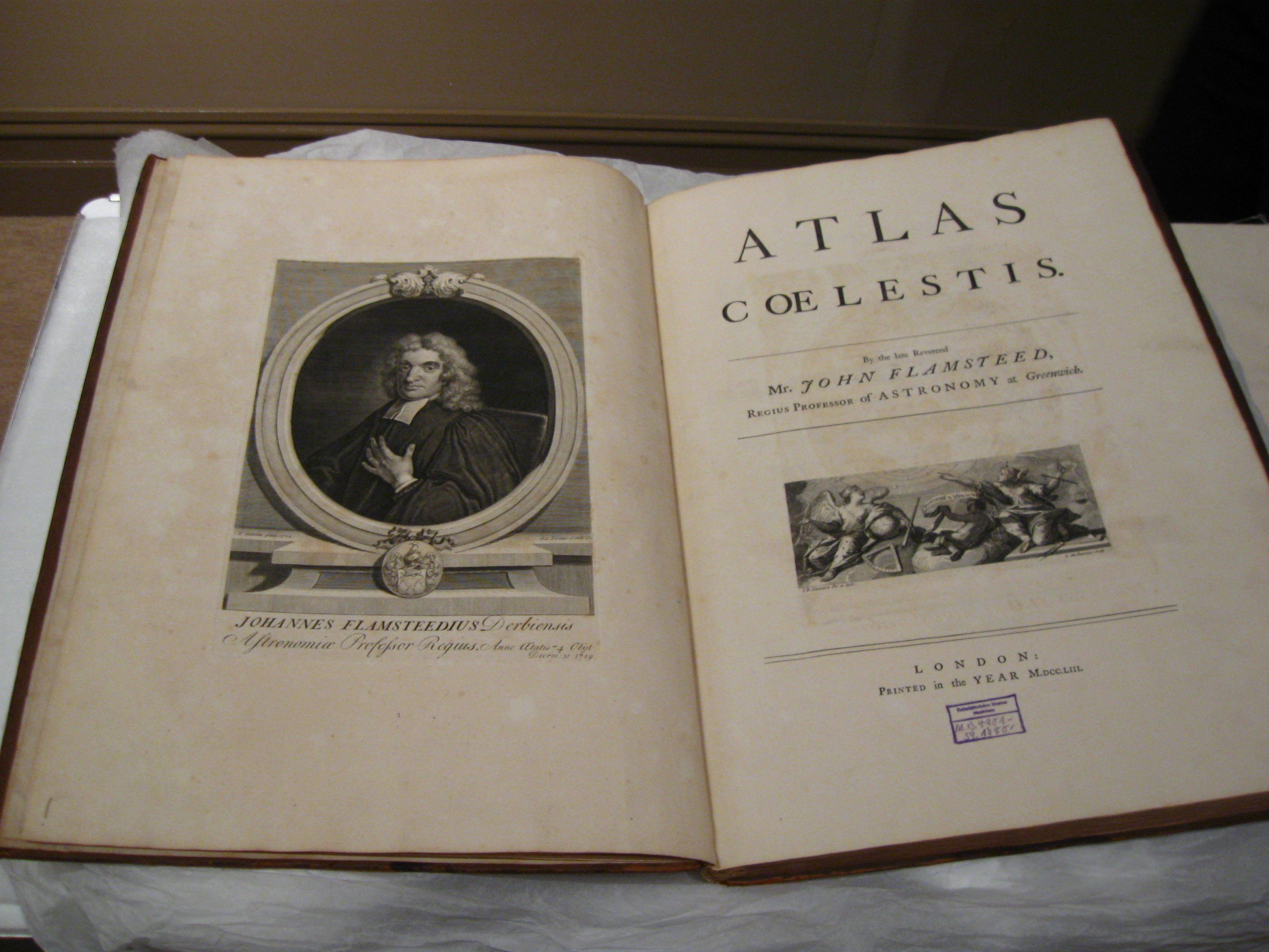 In 1729 his John Flamsteed's widow published his Atlas Coelestis, assisted by Joseph Crosthwait and Abraham Sharp. \this copy is owned by Derby Museum and Art Gallery. The picture will be useful for this meeting. on April 9th 2011.